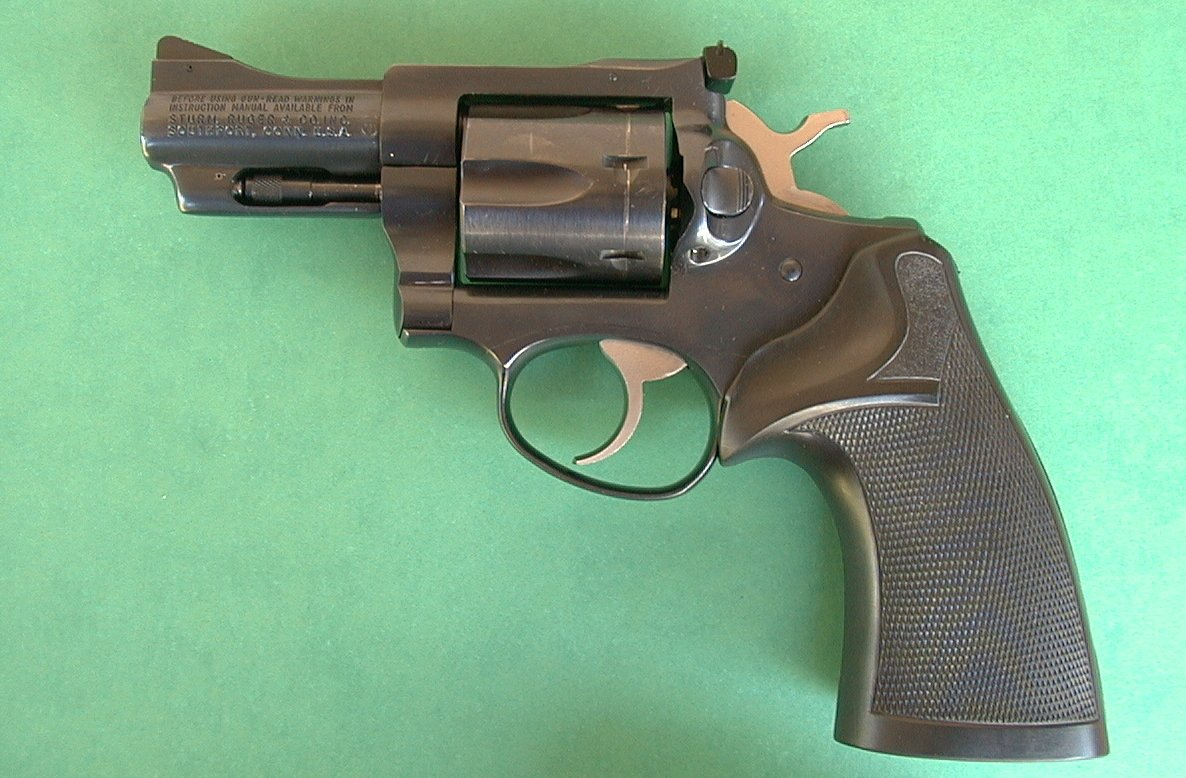 Security Six